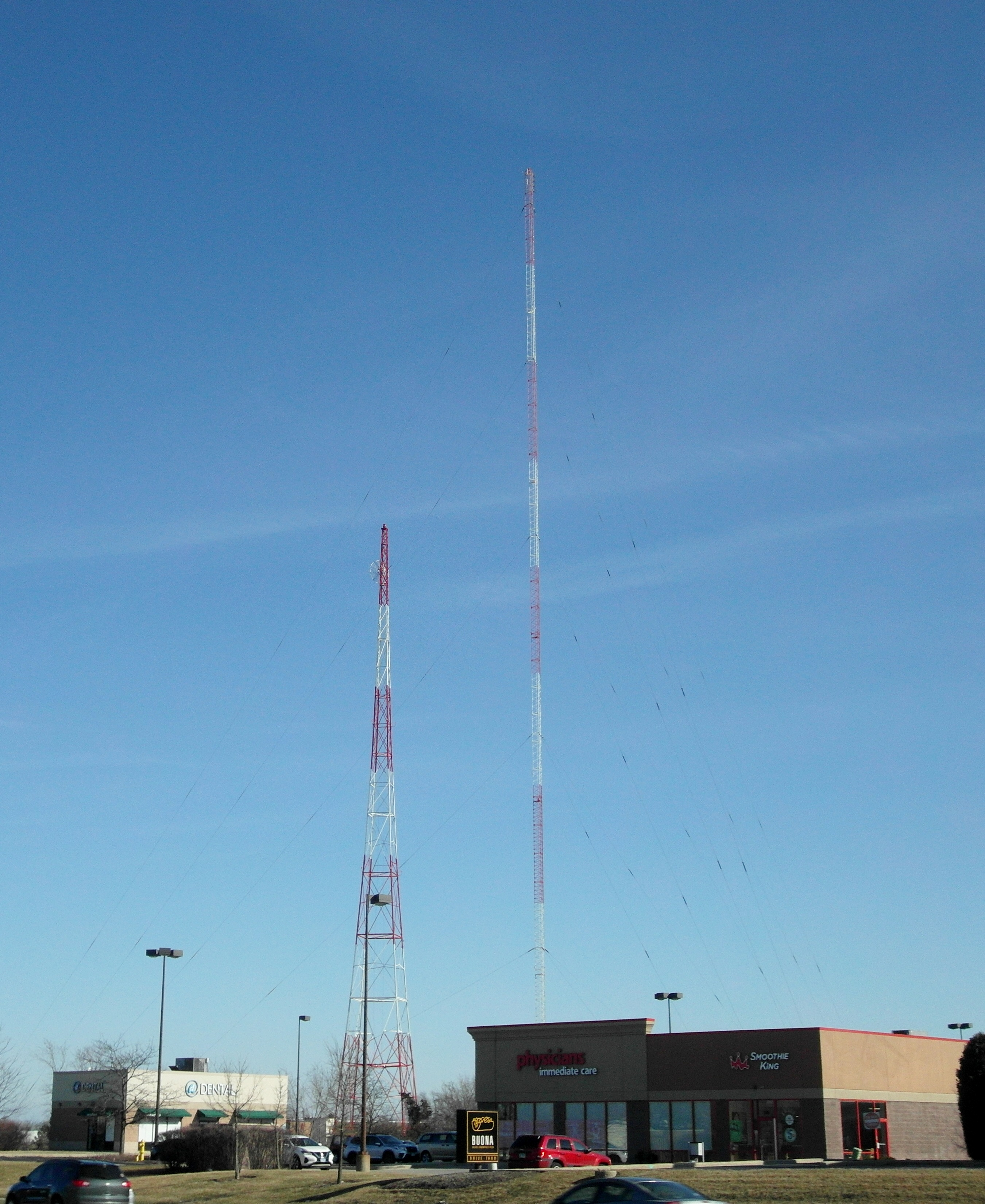 WSCR's main and auxiliary towers in Bloomingdale Township, DuPage County, Illinois.